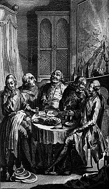 Edmund's dinner with monks, including gay flirtations; 4 monks and Edmund (the protagonist)